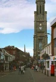 The Wallace Tower on Ayr High Street (original: I took the picture)